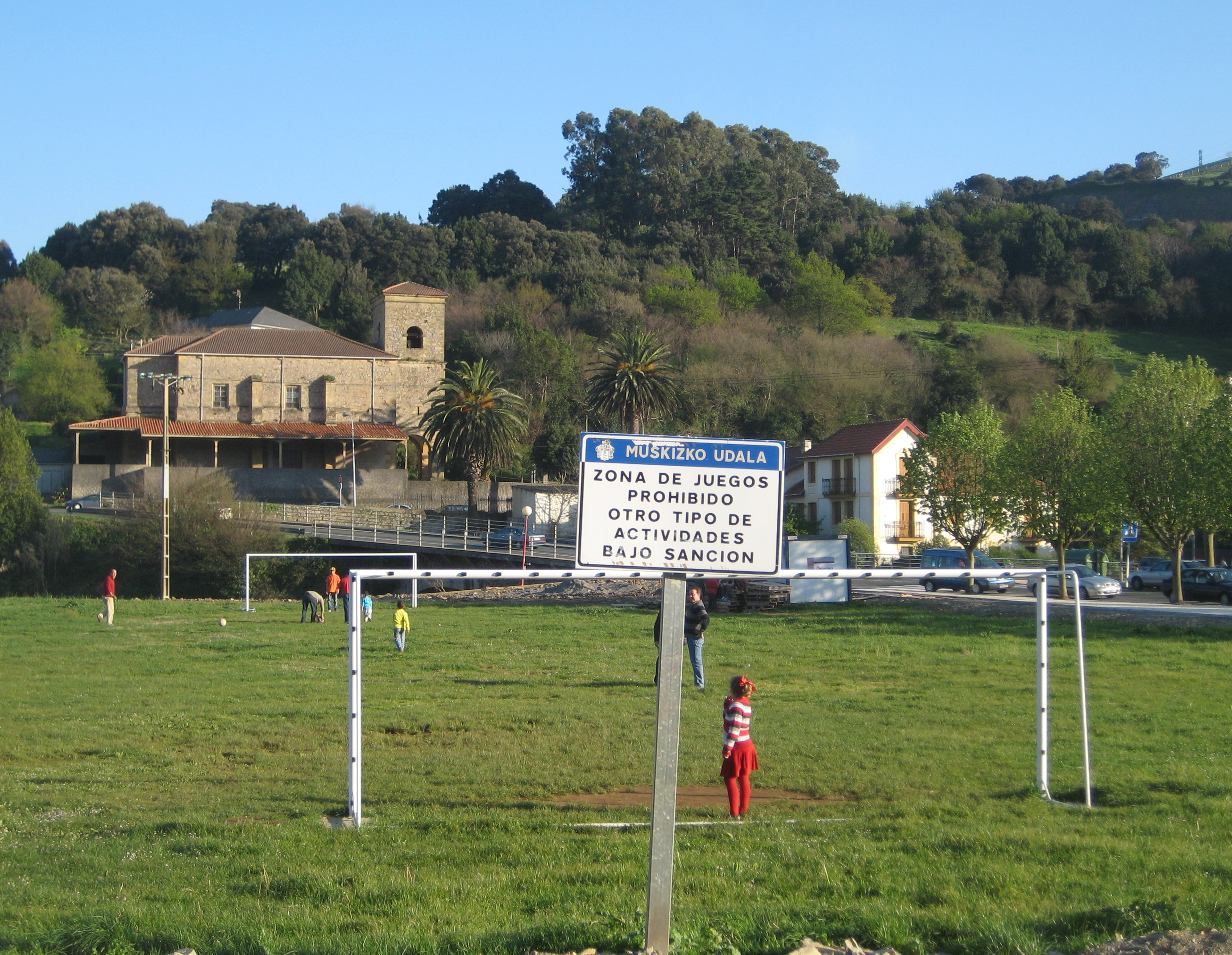 Playground in Pobeña, Muskiz, Biscay